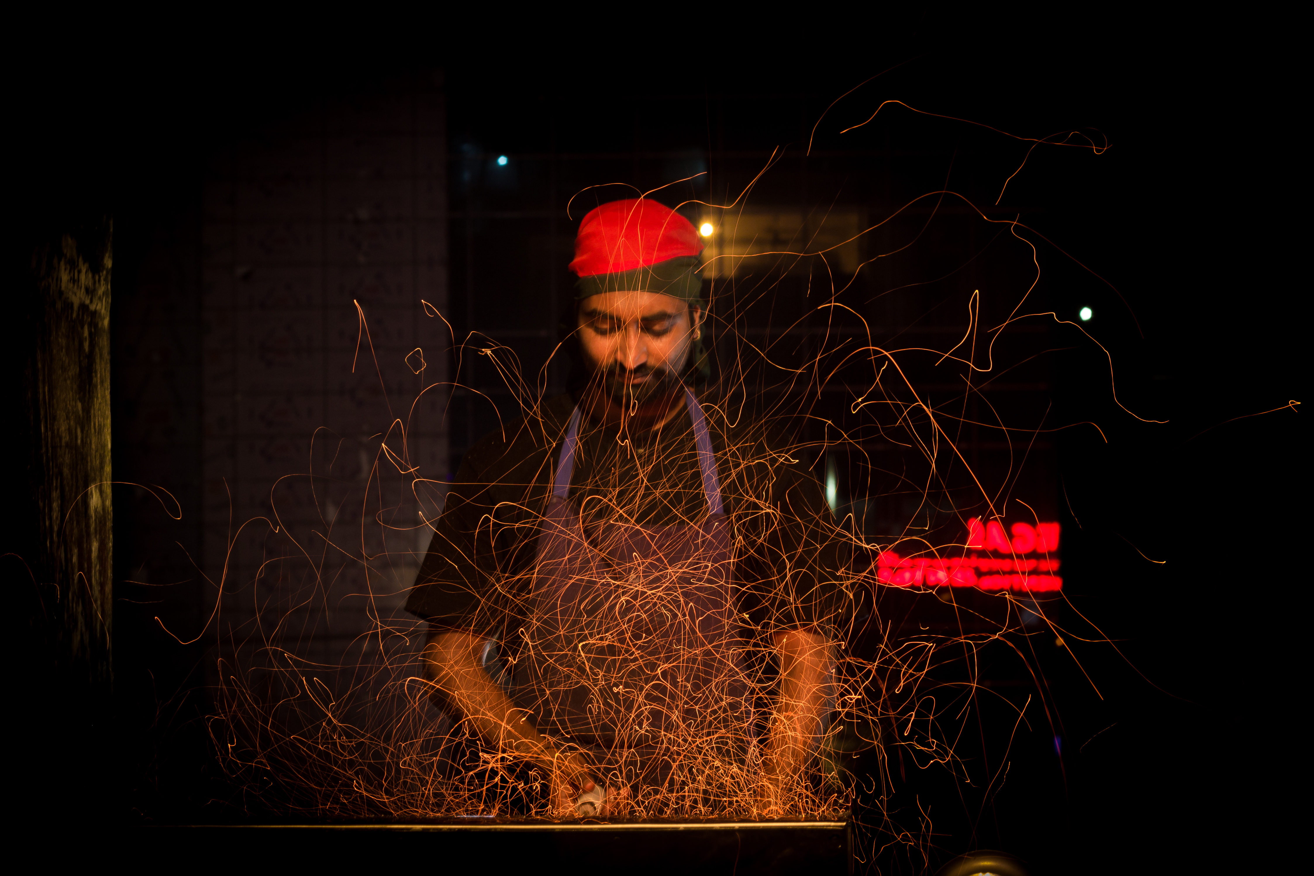 BBQ Chef